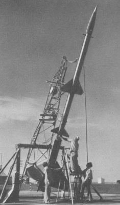 A supersonic ground-to-air pilotless aircraft (GAPA) receives its final check prior to launching at Holloman Air Force Base, N.M., c. 1949. The USAF launched more than 100 such Boeing-built test vehicles in research to develop defensive weapons against bomber attacks. (U.S. Air Force photo)